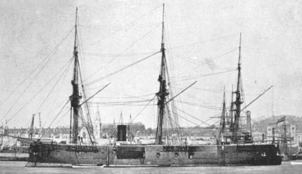 Photograph of British ironclad HMS Pallas.